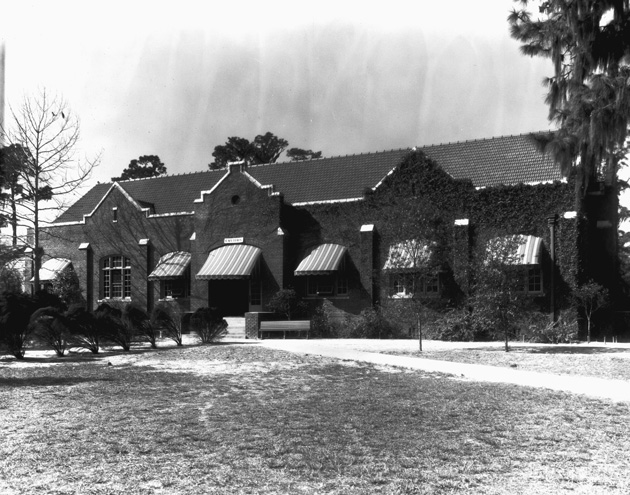 Johnson Hall at the University of Florida. Burned down in 1987